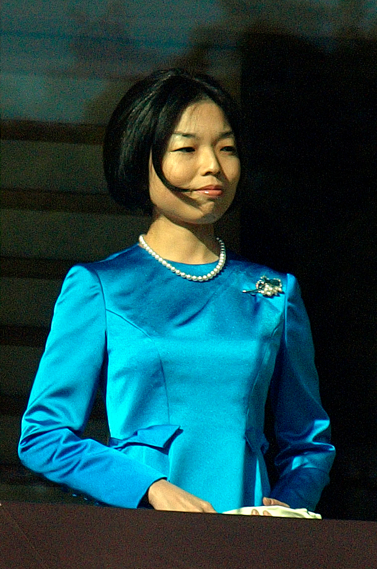 Princess Akiko appeared the "Visit of the General Public to the Palace for the New Year Greeting" at the Tokyo Imperial Palace in Chiyoda Ward, Tōkyō Metropolis on January 2, 2011.